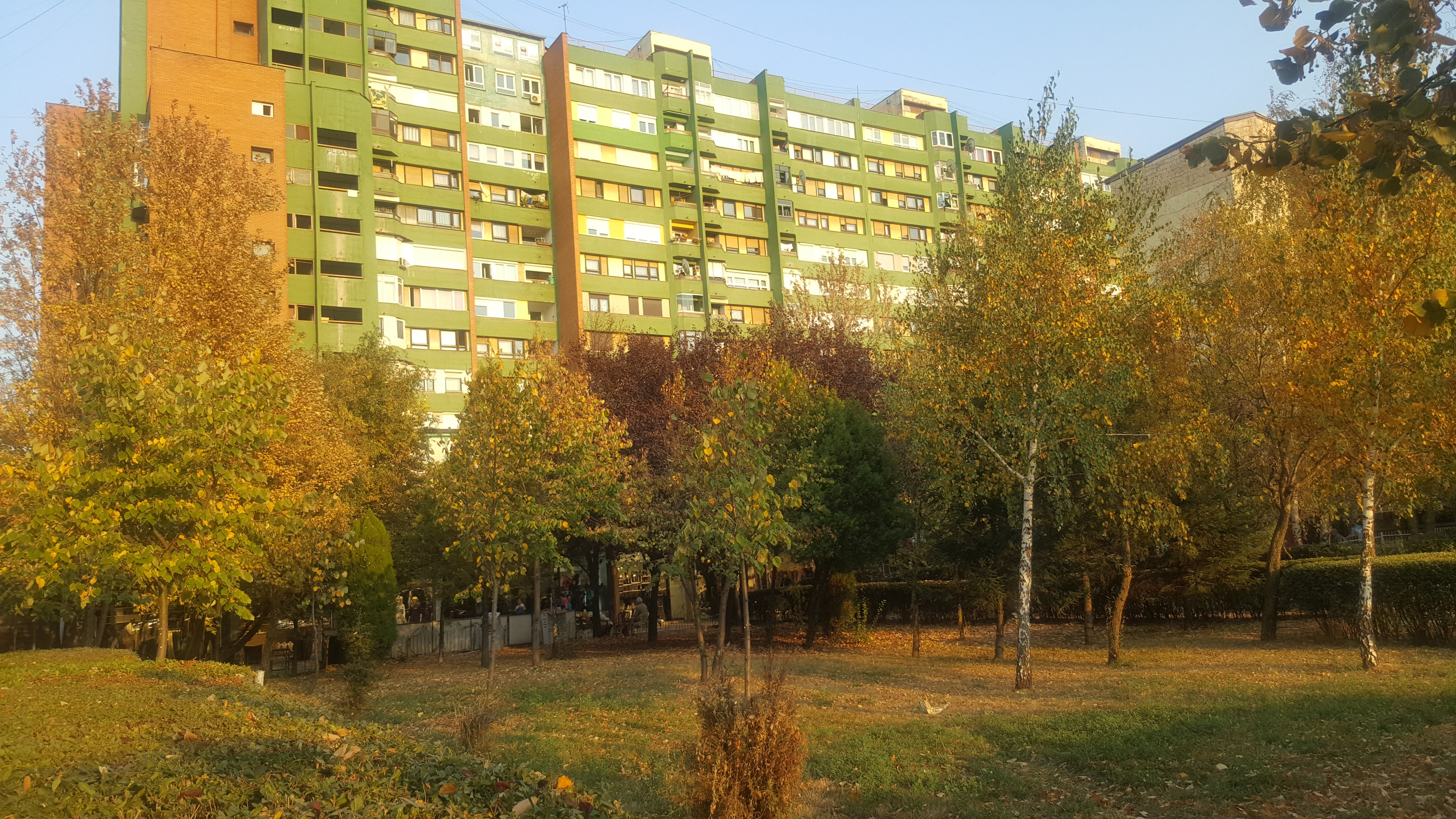 Park at Dardania neighborhood, Prishtine